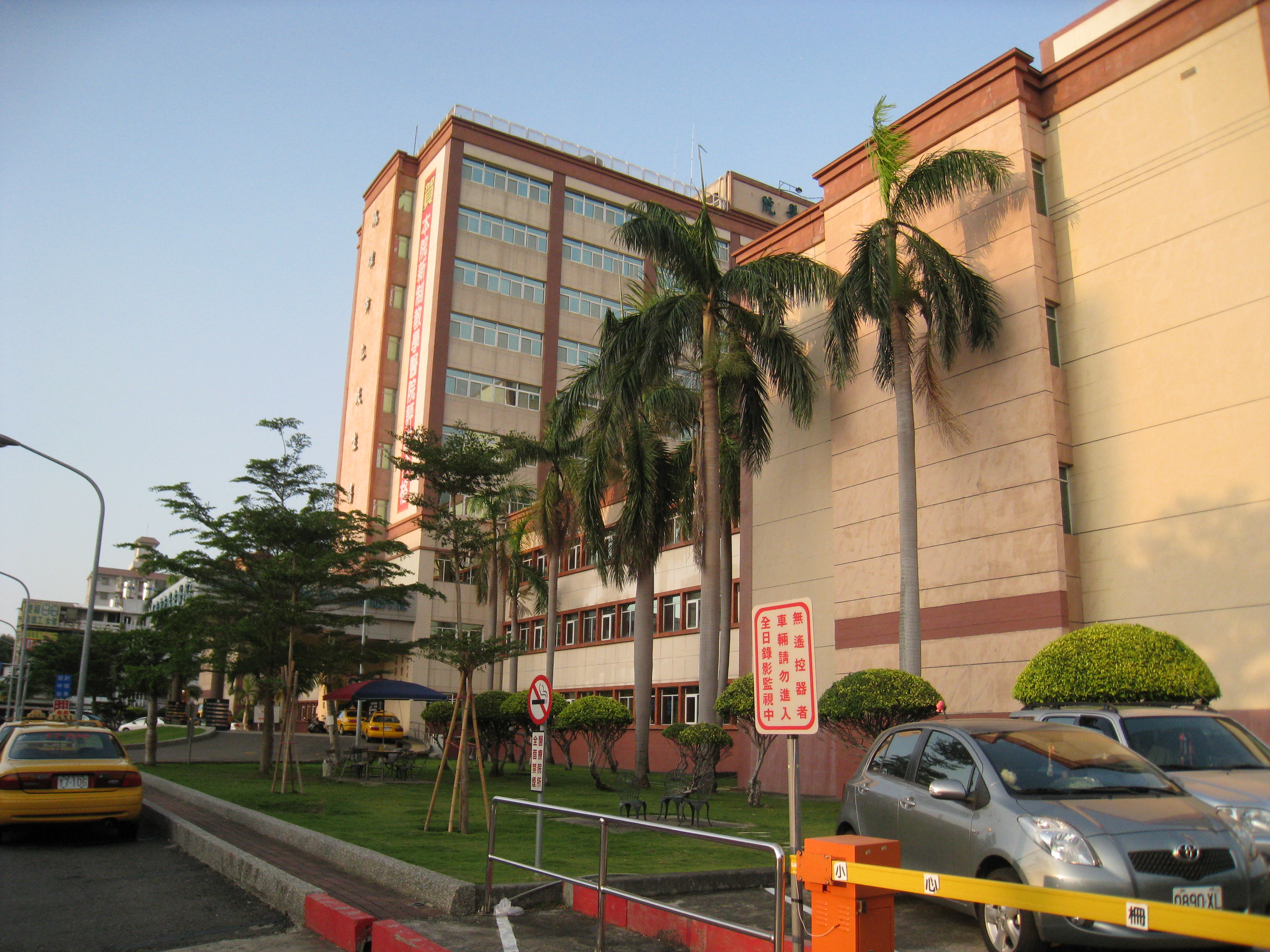 Minsheng Hospital, Lingya District, Kaohsiung City, Taiwan